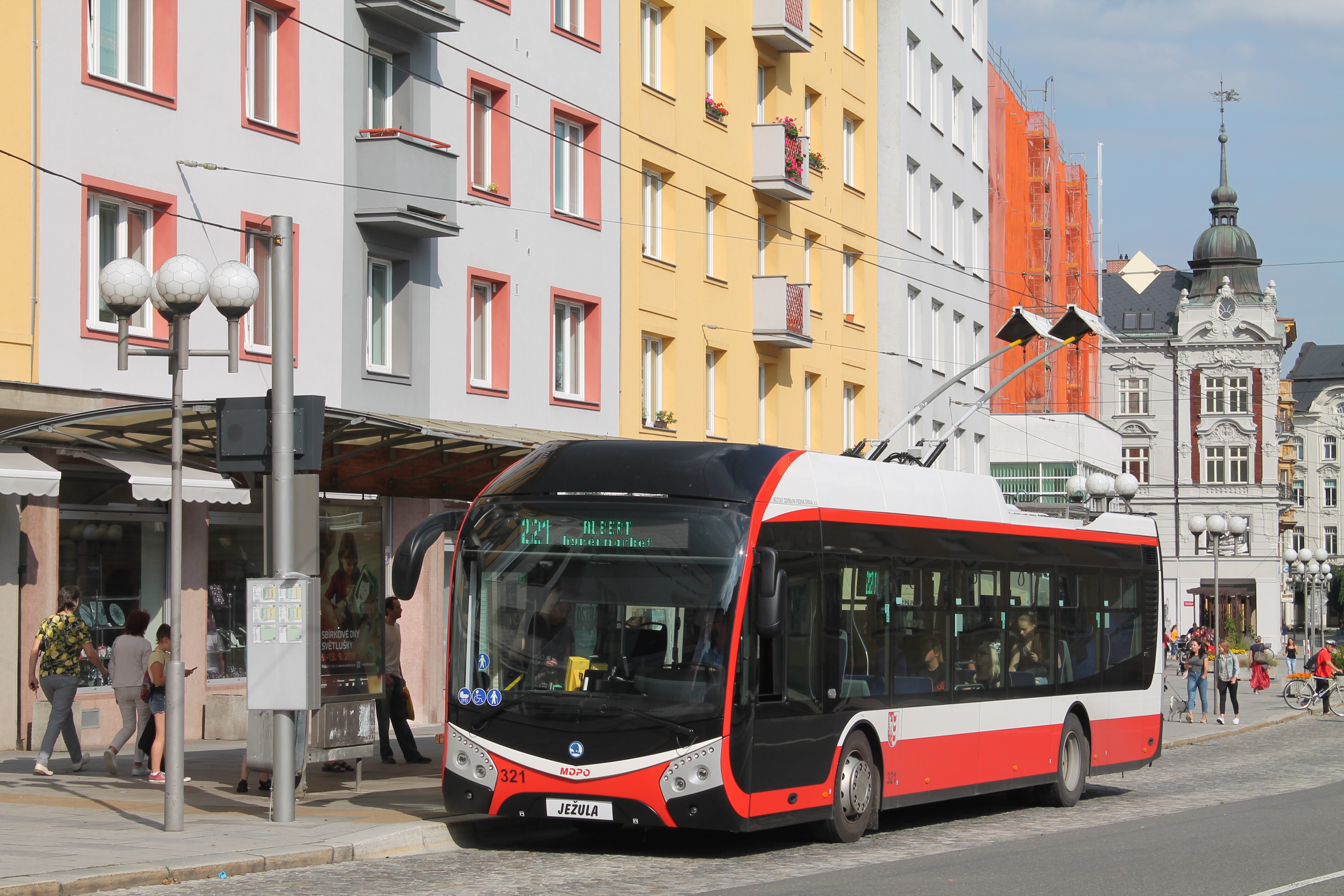 Škoda 32Tr SOR trolleybus No. 321 of Městský dopravní podnik Opava, Opava, Opava District, Czech Republic